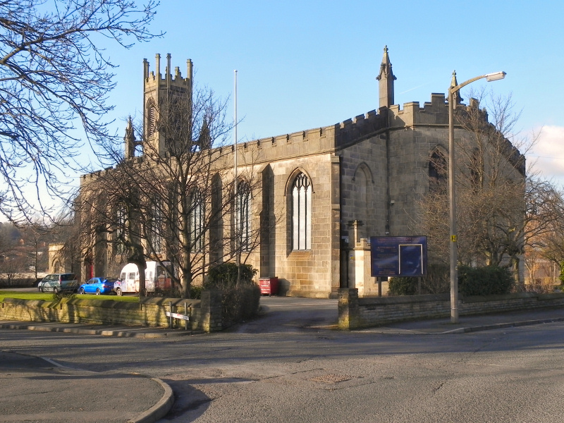 St James' parish church, Barry Street, Oldham, Greater Manchester, seen from the southeast